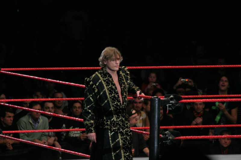 William Regal making his entrance in Milan,Italy